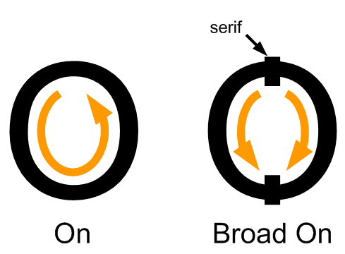 Different writing between On (О, о) and Broad On (both Cyrillic alphabets). Edited in Microsoft Visio 2003, using Arial font.